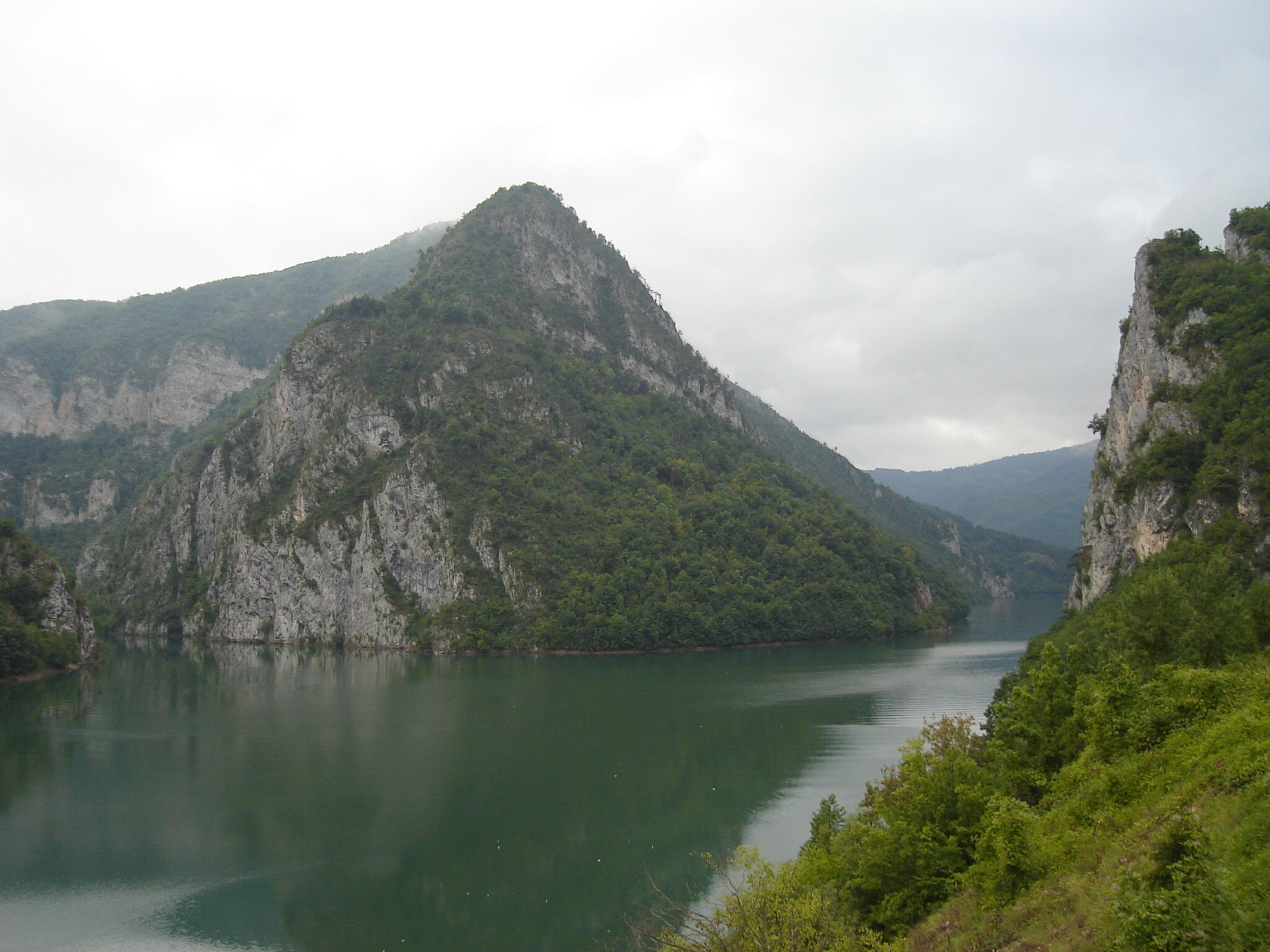 Mouth of the river Lim into the Drina in Bosnia and Herzegovina